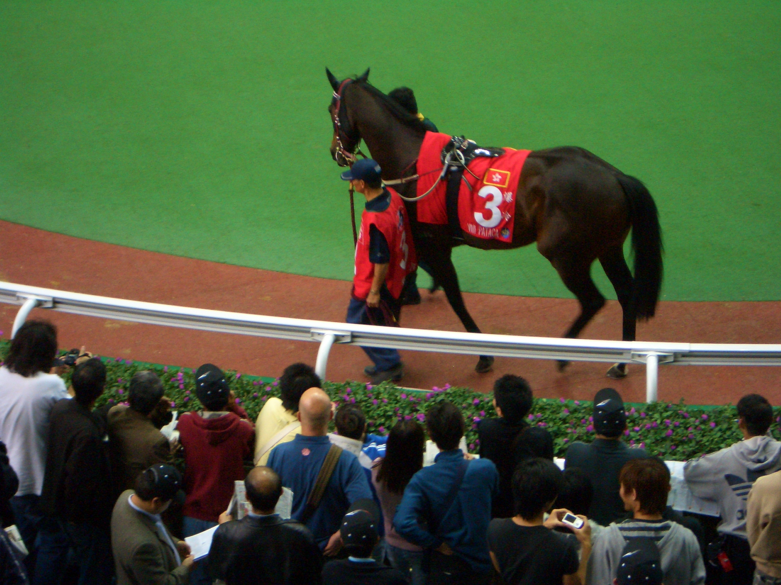 Viva Pataca (Chinese:爆冷）, started at 2007 Hong Kong Cup.